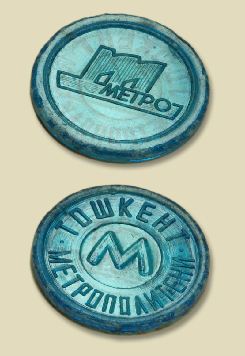 Chip of the Toshkent subway, 2007